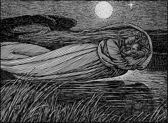 "The Lady of the Lake Steals Lancelot from his mother", Rhead's half-page illustration for Tennyson's Elaine.